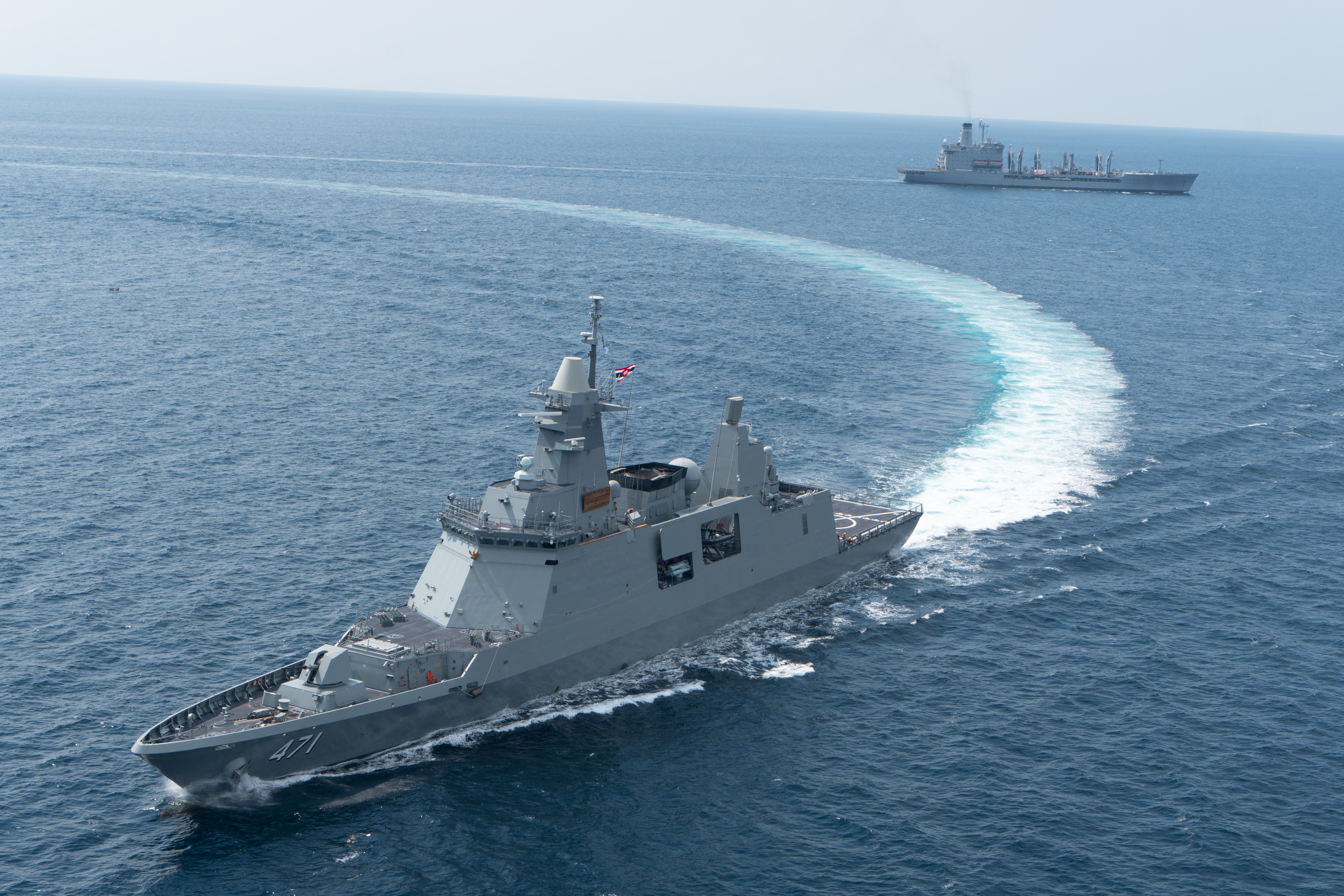 190409-N-ZZ999-004 ANDAMAN SEA (April 9, 2018) The underway replenishment oiler USNS Guadalupe (T-AO 200) and the Royal Thai Navy frigate HTMS Bhumibol Adulyadej (FFG 471) break formation with three other ships from the U.S. Navy and Royal Thai Navy during Guardian Sea 2019. Guardian Sea is a premier exercise that demonstrates both navies commitment to ensuring that they are ready to counter any threats together. (U.S. Navy photo courtesy of the Royal Thai Navy by Cmdr. Kamchai Charoenpongchai/Released)